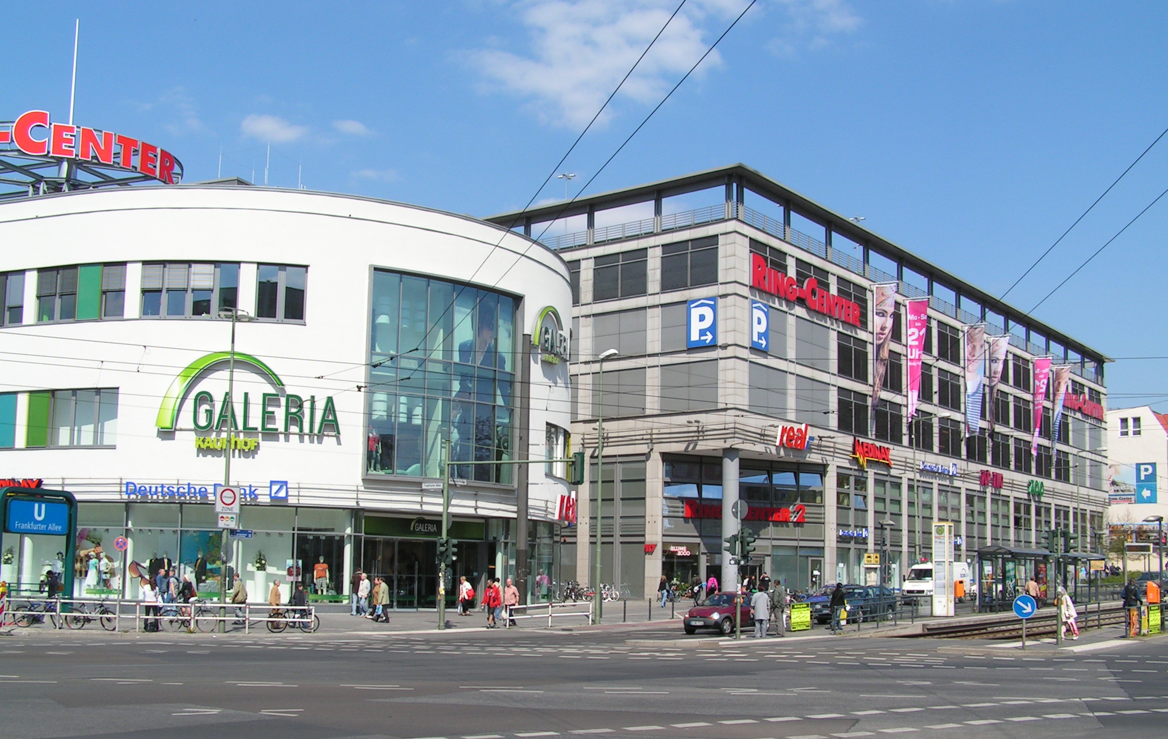 Ring-Center in Berlin, Germany. New buildings as seen from the Frankfurter Allee.